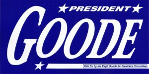 Logo for the 2012 presidential campaign of Virgil Goode